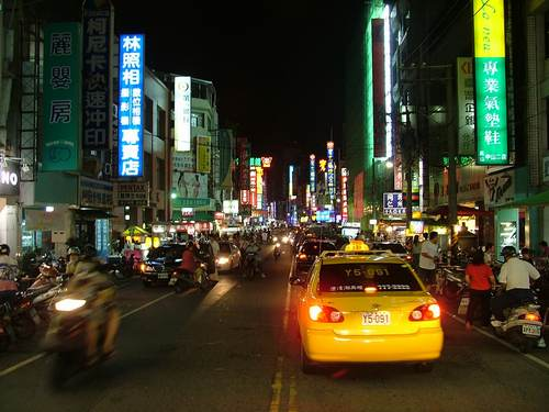 "Traffic races through a night market in downtown Fengshan."